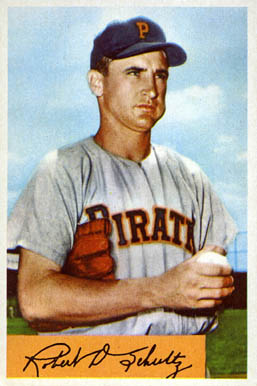 Major League Baseball player Bob Schultz in 1954.